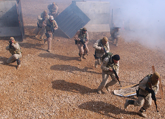 Members of the Hilla Iraqi SWAT team burst into a compound to capture terrorists during a training demonstration Jan. 24, 2006. The team trains nearly every day and conducts missions independently of Coalition Forces. U.S. Army photo by Sgt. Jorge Gomez